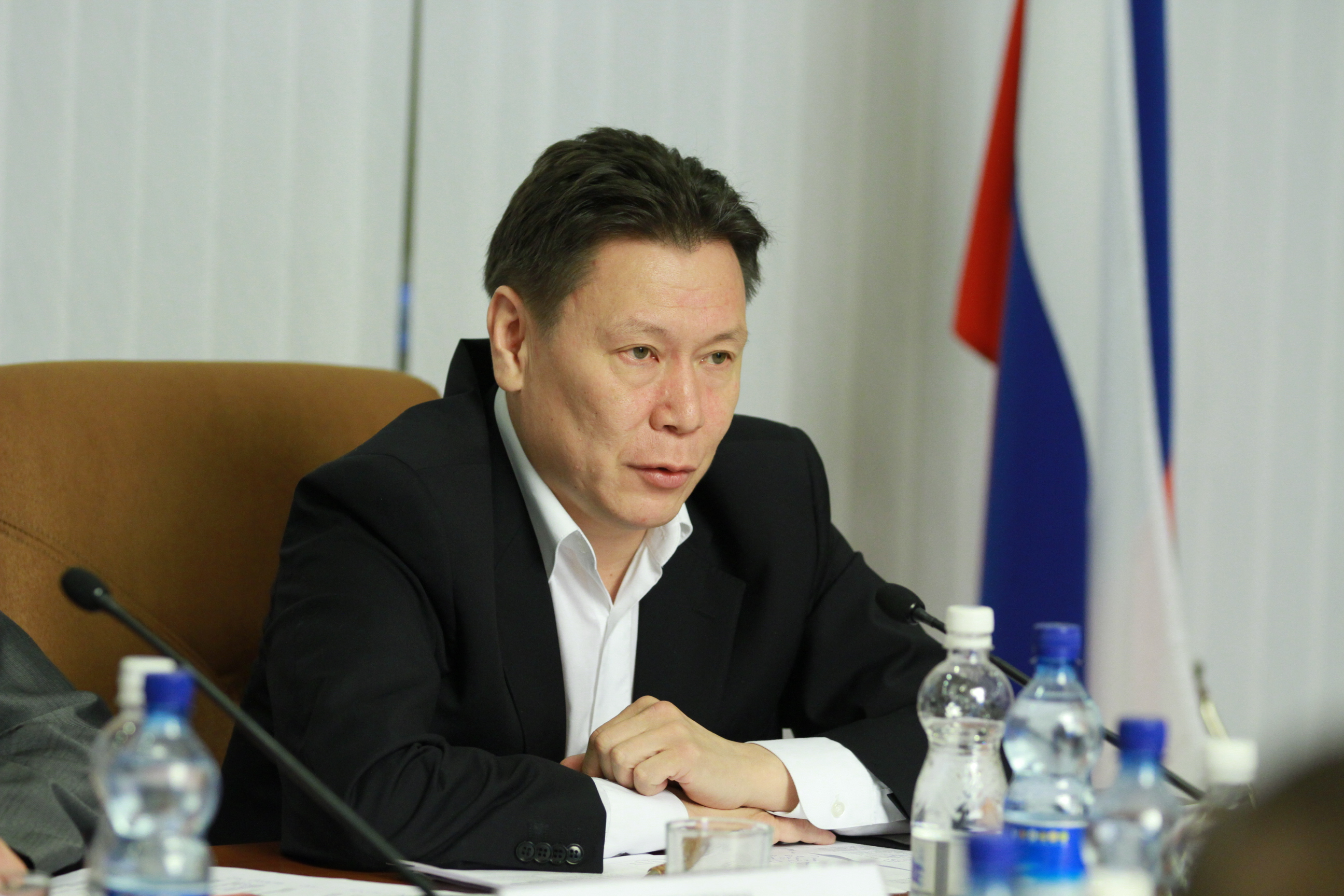 Grigory Ledkov, President of the Russian Association of Indigenous Peoples of the North, Siberia and Far East (RAIPON)